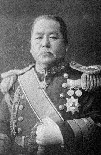 Toshiatsu Sakamoto